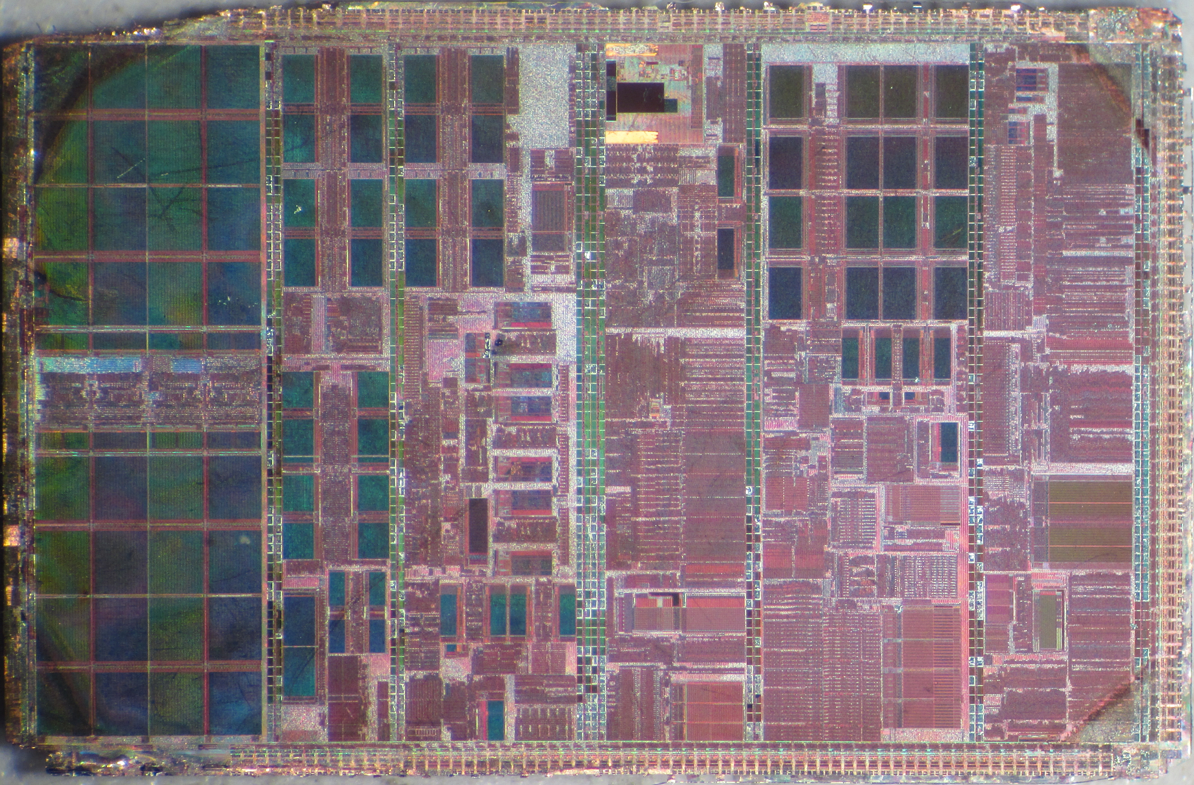 Die shot of AMD Athlon XP microprocessor with Thoroughbred core (AXDA1800DLT3C).